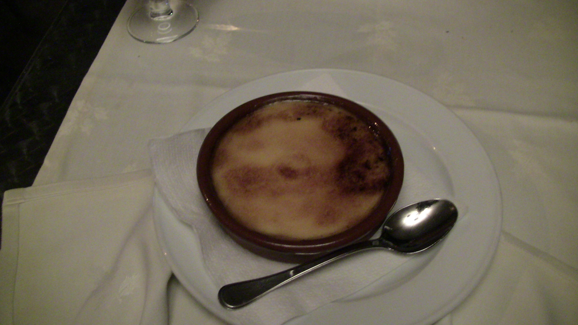 Crema Catalan as served in El Glop restaurant in Barcelona, Catalonia, Spain